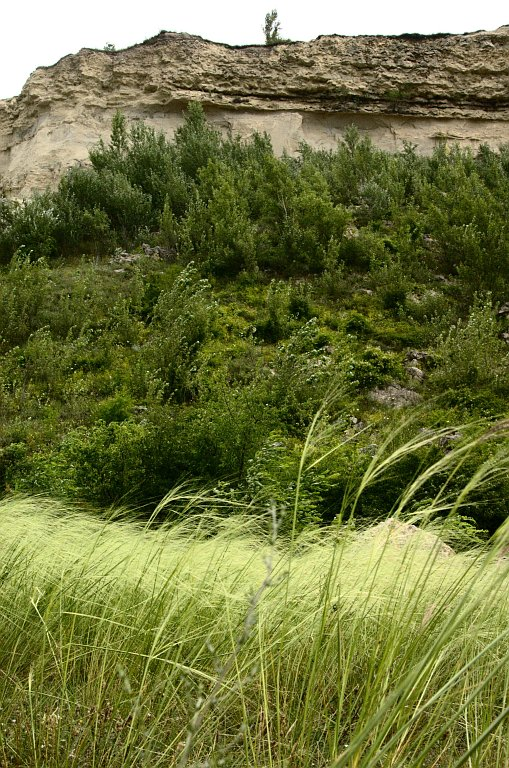 Sandberg